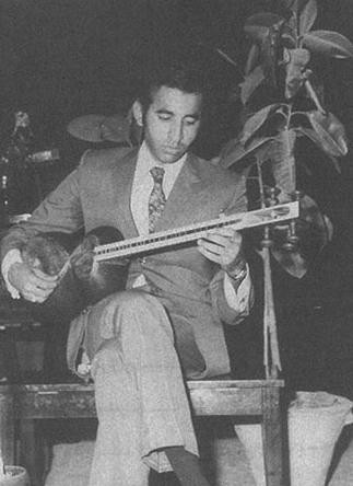 Young Mohammad-Reza Lotfi